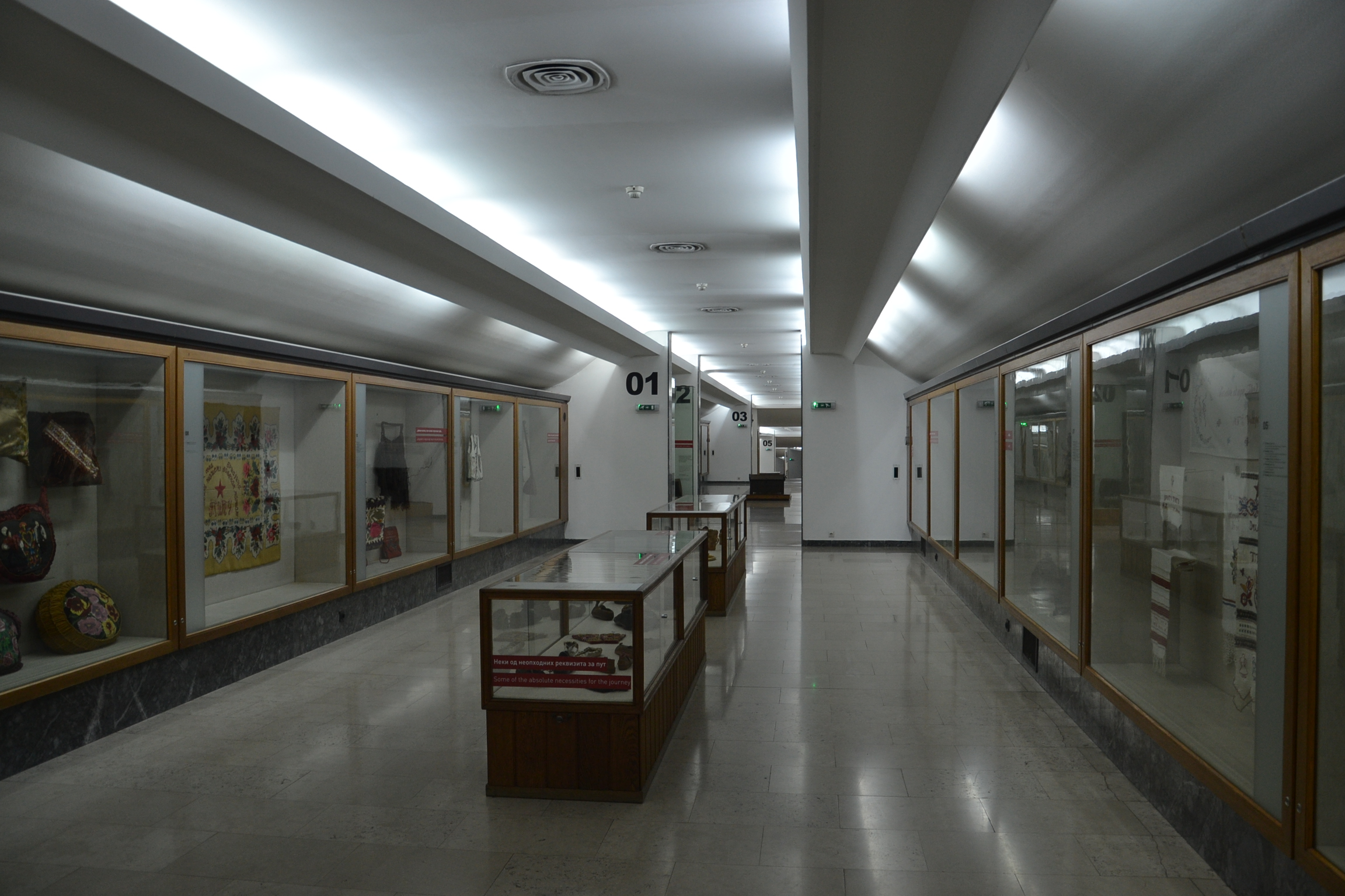 Museum of Yugoslav History, Belgrade - interrior of the Old Museum